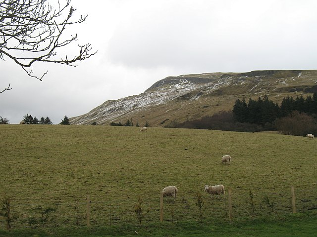 Sheep pasture below Skiddaw That is Skiddaw, Stirlingshire, a craggy hillside on Stronend.